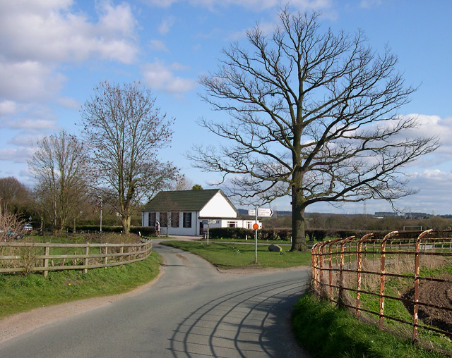 Junction and Village Hall, Trysull, Staffordshire The village still has its school (150 metres north-east) but the village centre and church is another 300 metres on.